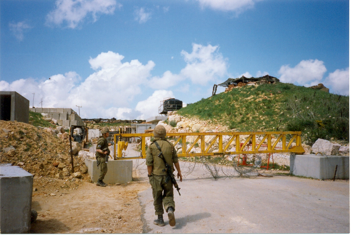 מוצב גלגלית ברצועת הביטחון בדרום לבנון,התמונה צולמה על ידי טל ס, מרץ 1999